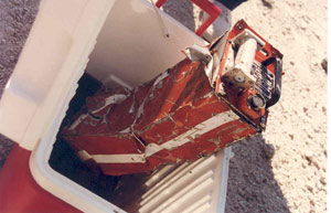 NTSB photo of recovered FDR